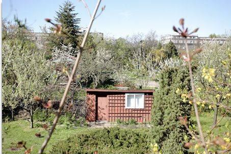 Ogrodek.